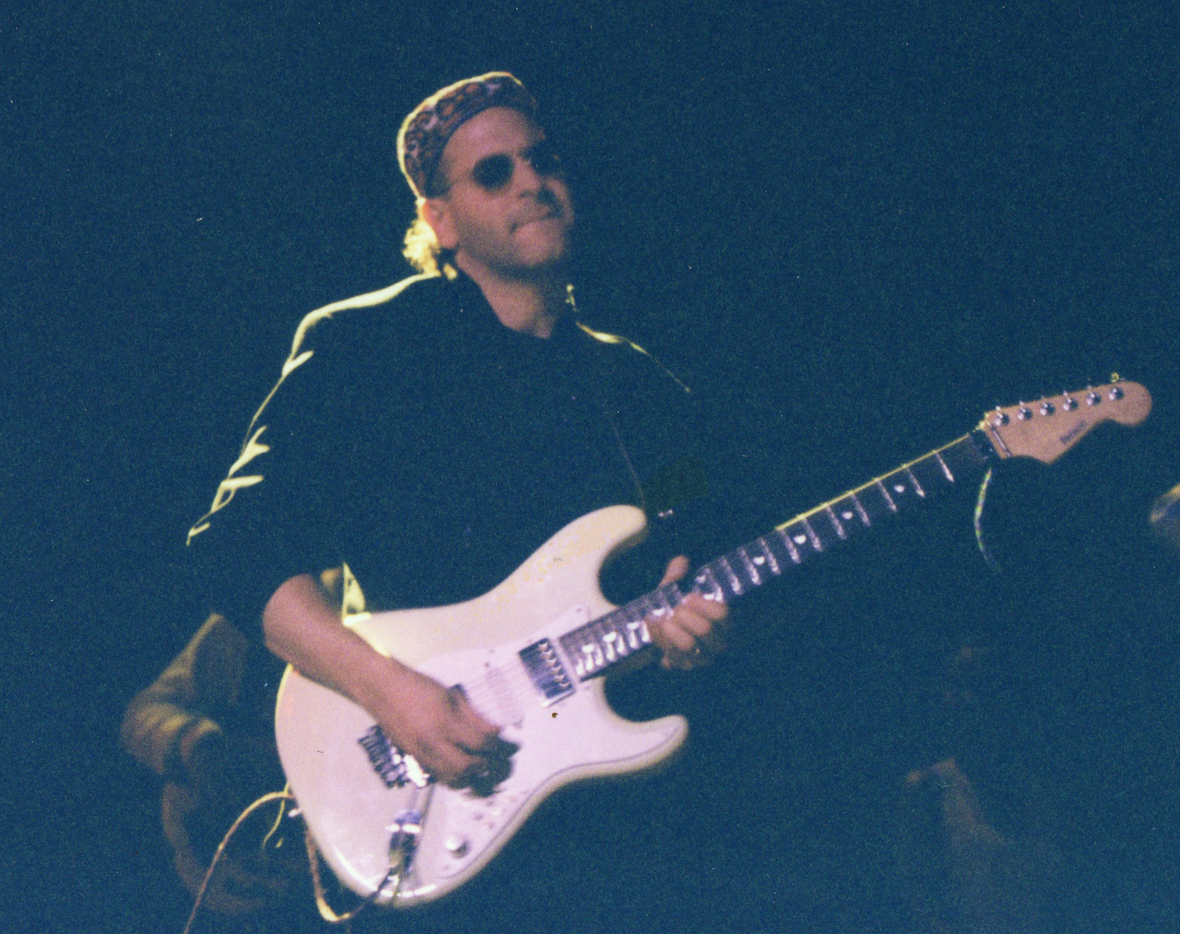 RebbeSoul live in Hollywood; photo by Daryl Temkin, used by permission